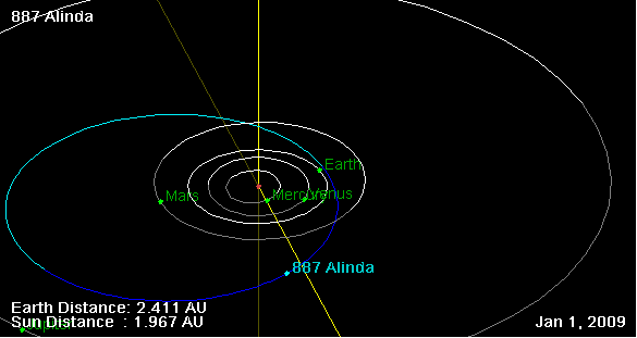 887 Alinda orbit, and his position on 01 Jan 2009 (NASA Orbit Viewer applet)